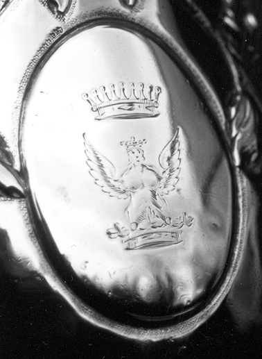 18th-century Salis crest, Bellona, and count's coronet (for Peter), on a Georgian Irish silver jug, marked Dublin Photo of crest on silver hot-water jug, by R. de Salis, April 2006.Rodolph 16:58, 19 February 2007 (UTC)